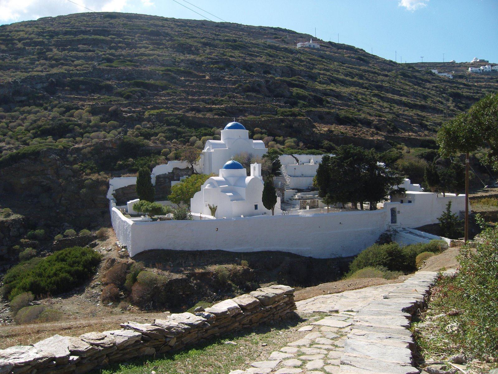 School of the Holy Sepulchre in Kastro, Sifnos island, Greece